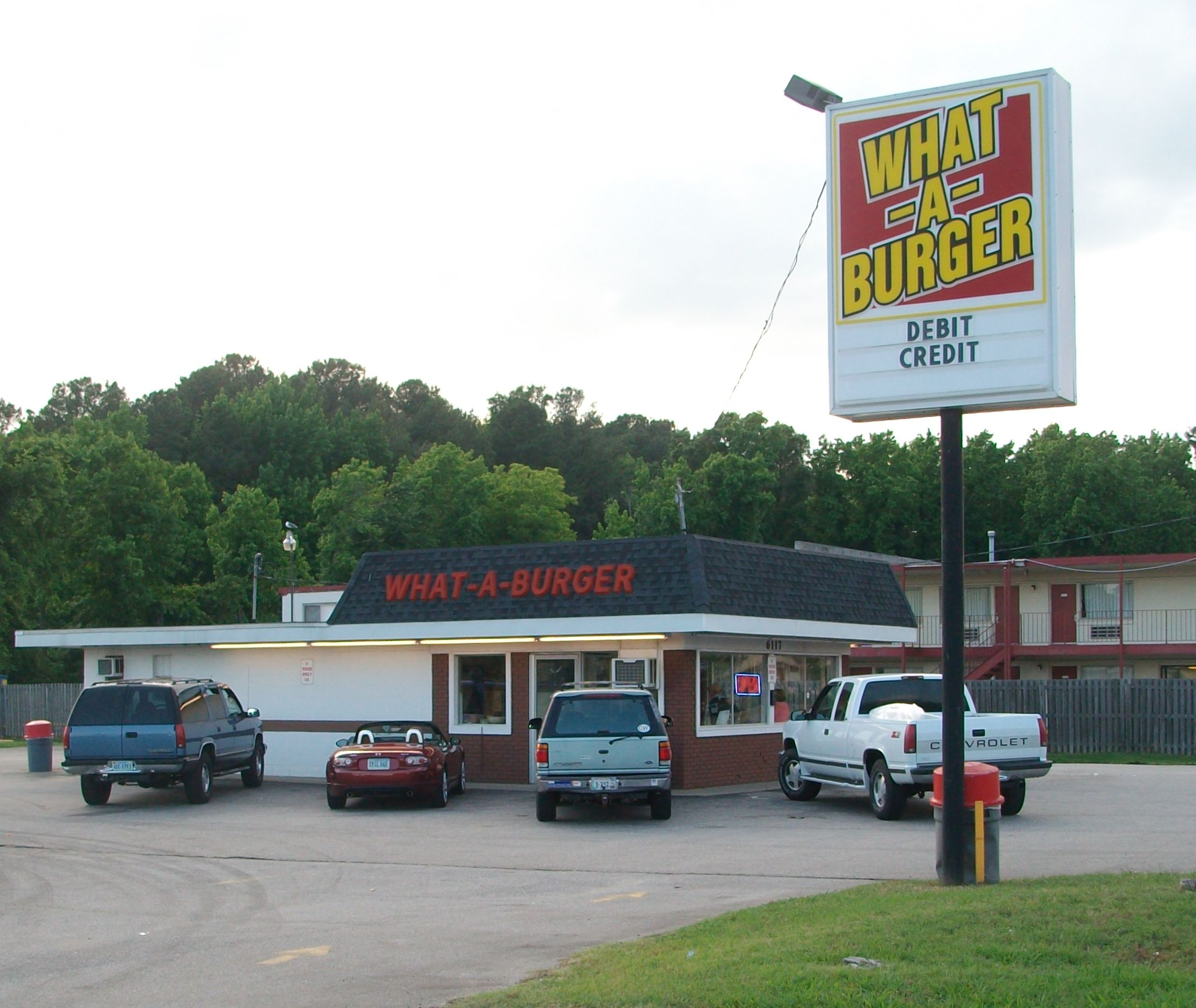 What-A-Burger location on Jefferson Avemue in Newport News, Virginia, within sight of the location of the first What-A-Burger established by Paul E. Branch, Jr., in 1950.